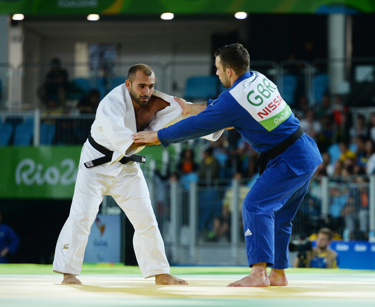 Judo at the 2016 Summer Paralympics – Men's 81 kg, Safarov vs Drane